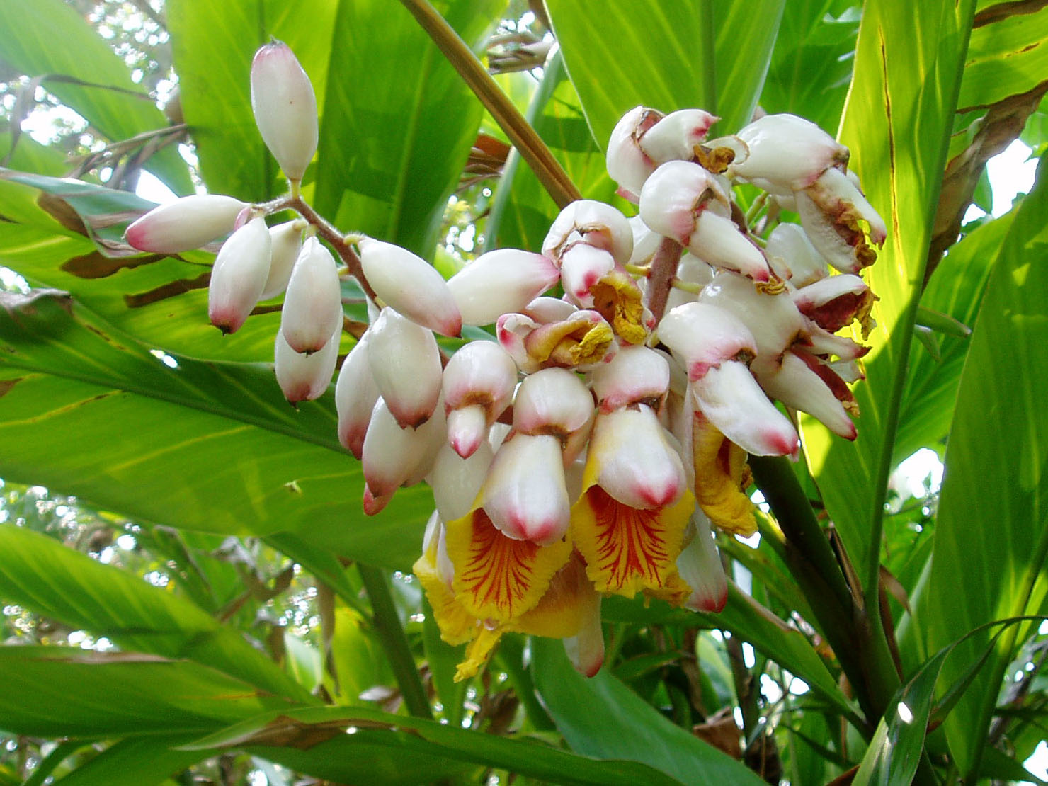 Flowers of Alpinia zerumbet